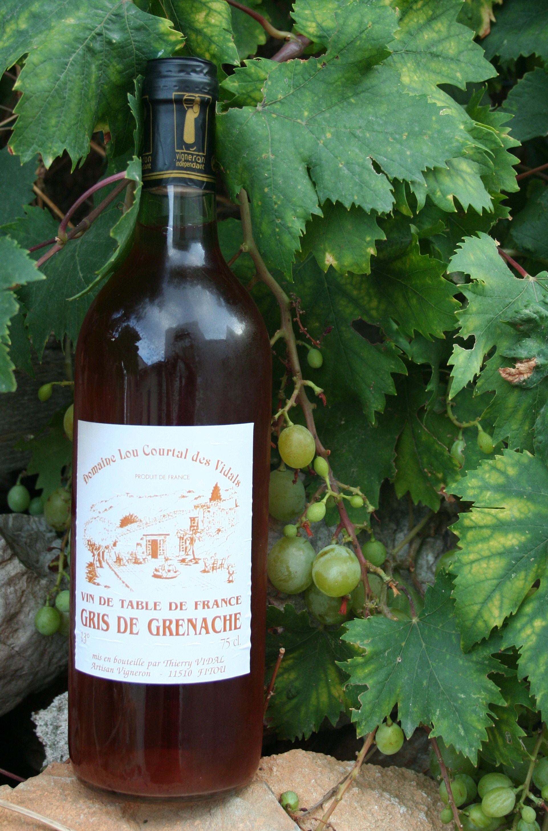 Bottle of Grenache rose wine from the Languedoc region of France